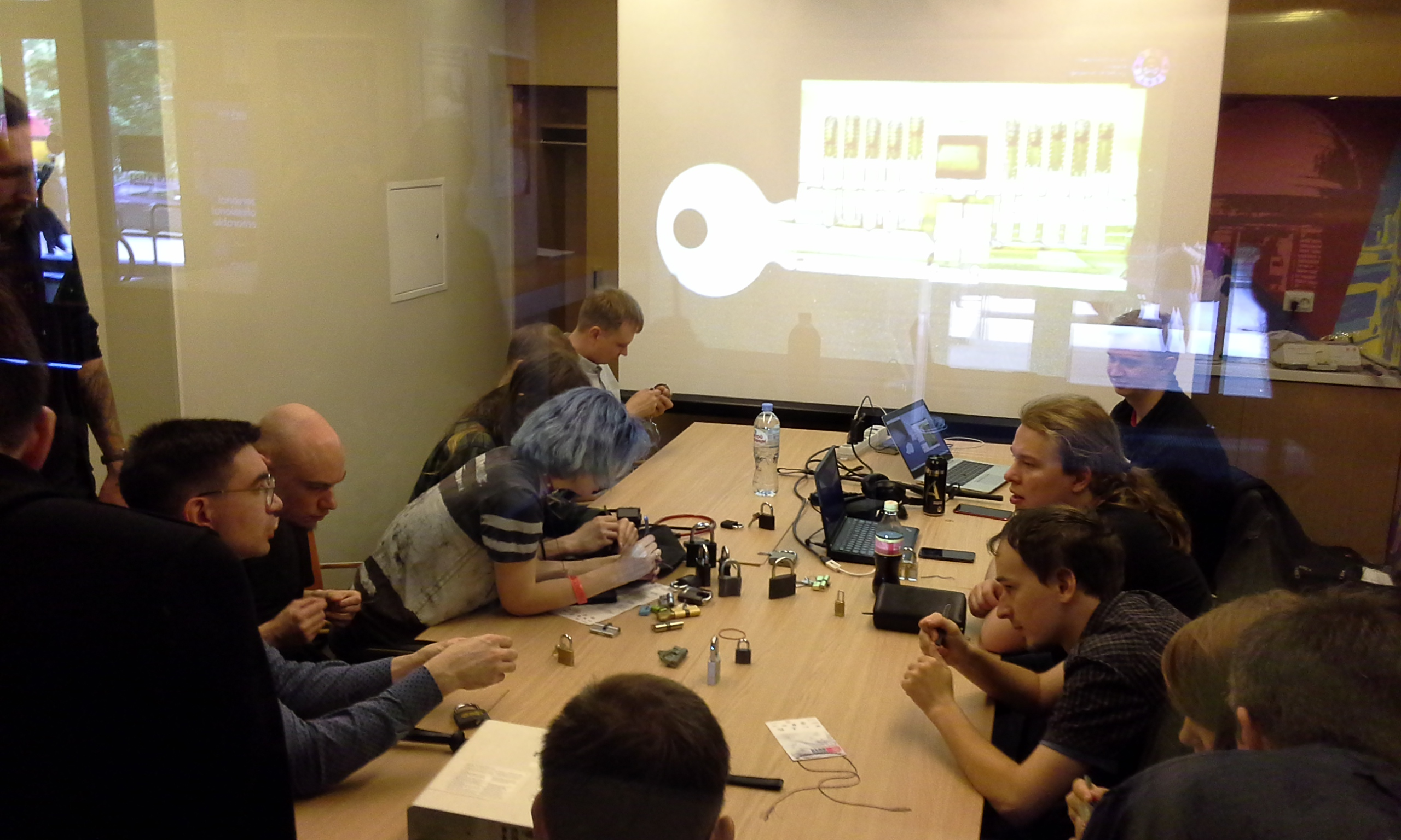 Chaos Constructions 2019 locksmiths